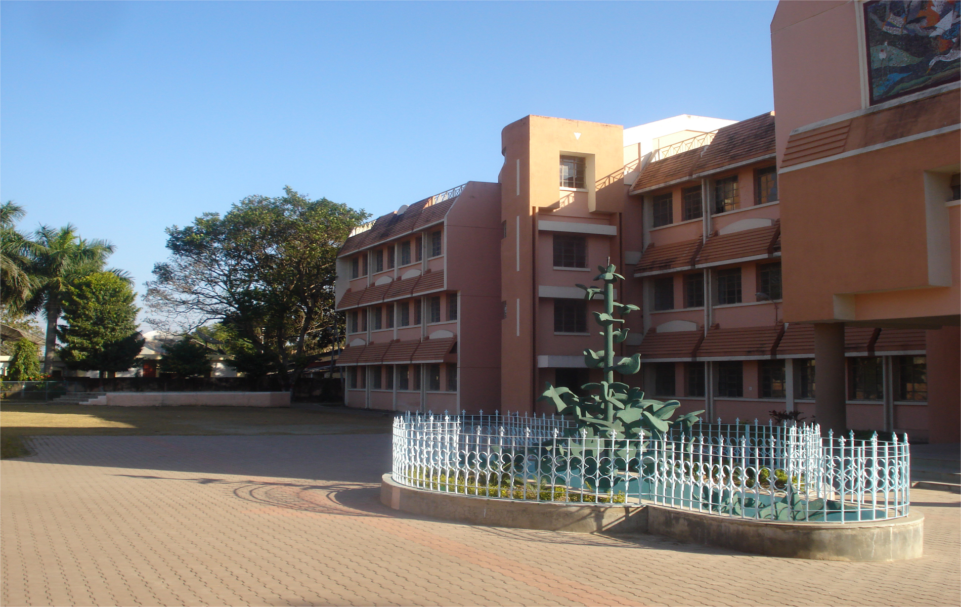 The +2 Section of the School.